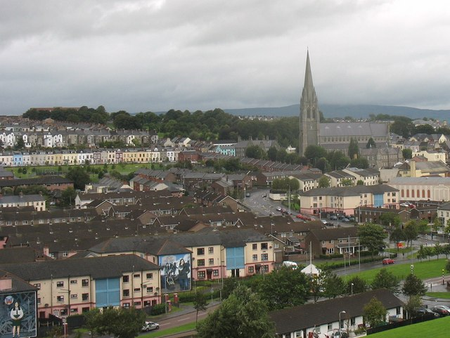 St Eugene's Roman Catholic Cathedral, Derry This view towards St Eugene's Cathedral, the mother church of the Roman Catholic diocese of Derry, across the Bogside's Lackey Road and Fahan Street, was taken from the Grand Parade on the City Walls. St_Eugene's_Cathedral